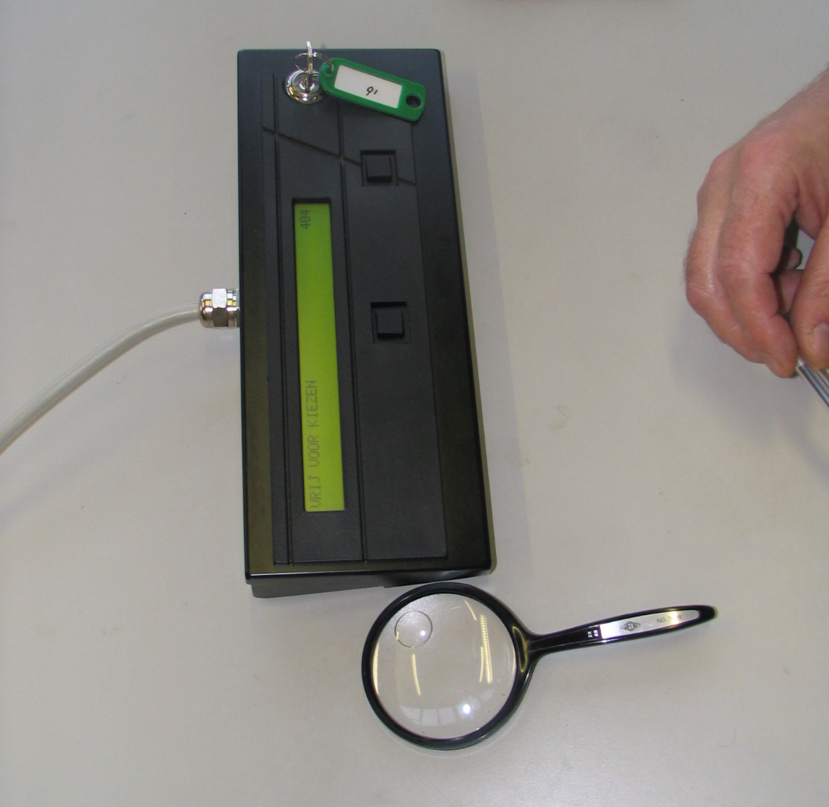 Control unit for a DRE voting machine made by Nedap. A polling place worker uses this to enable the voting machine as each voter enters the machine.